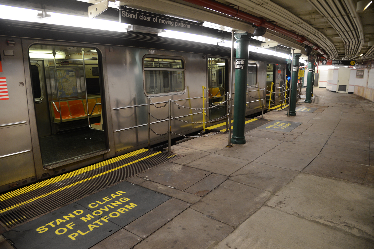 The old South Ferry station reopened to customers at 5:00 a.m. on Thursday, April 4, 2013. Closed since 2009, the station has been renovated and placed back in service while the new station, which was damaged during Hurricane Sandy, is repaired. Photo: Marc A. Hermann / MTA New York City Transit